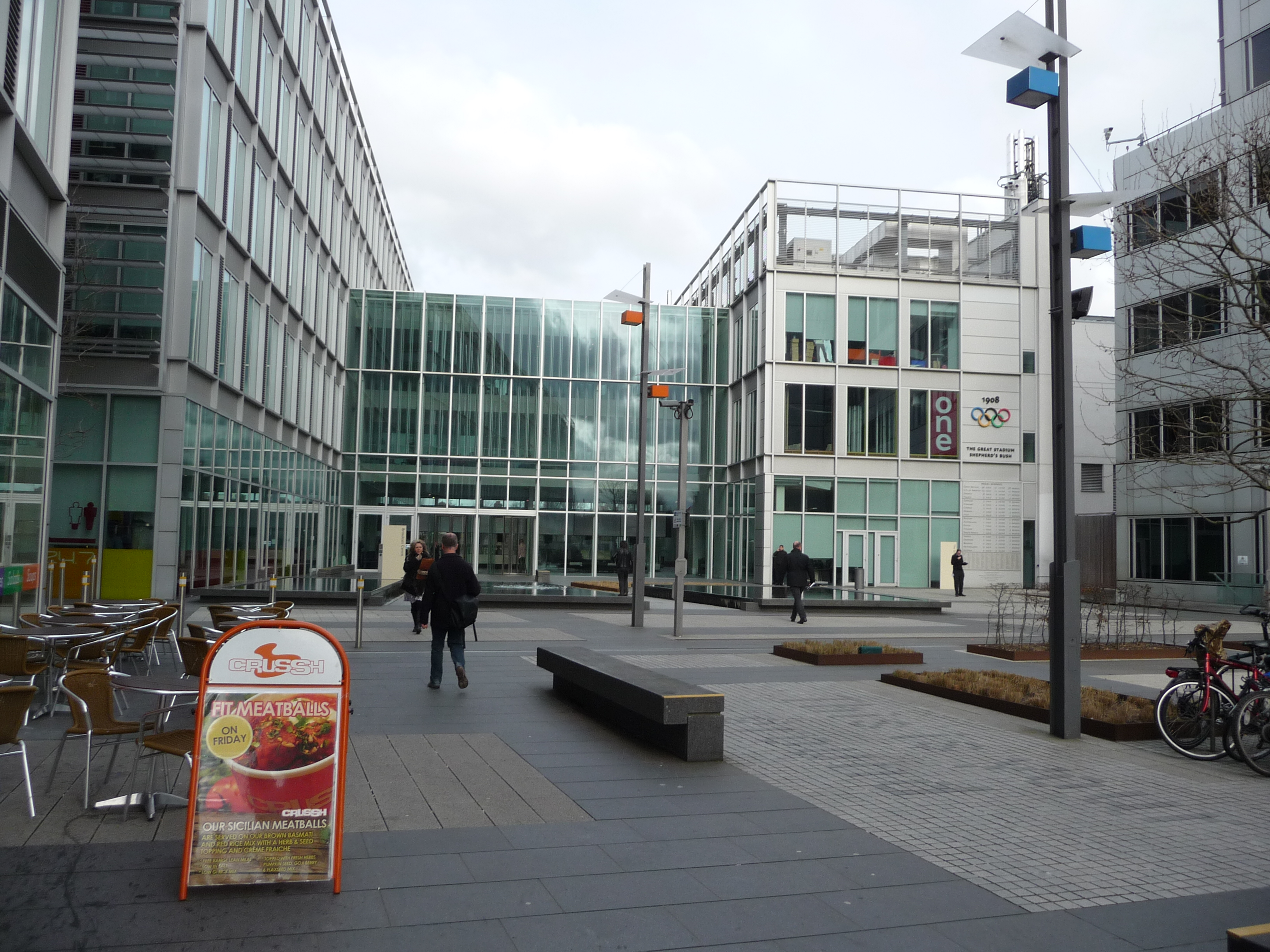 London : BBC White City, Media Village A sight which should be familiar to many viewers of the One Show, as this is where their studio, which can be seen towards the right can be seen.